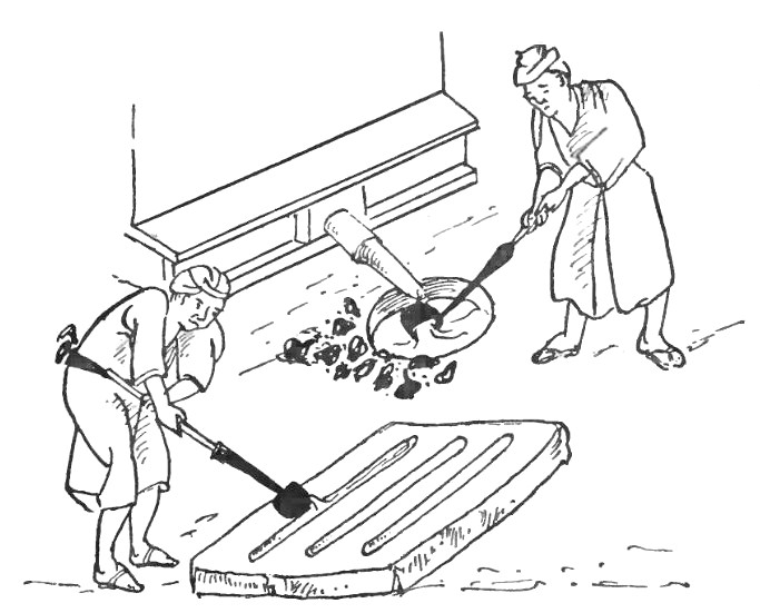 Image from scanned version of "A Book of Dartmoor" by Sabine Baring-Gould, published in 1907 and in the Public Domain. Image has been cropped, exposure adjusted and sepia tone removed.